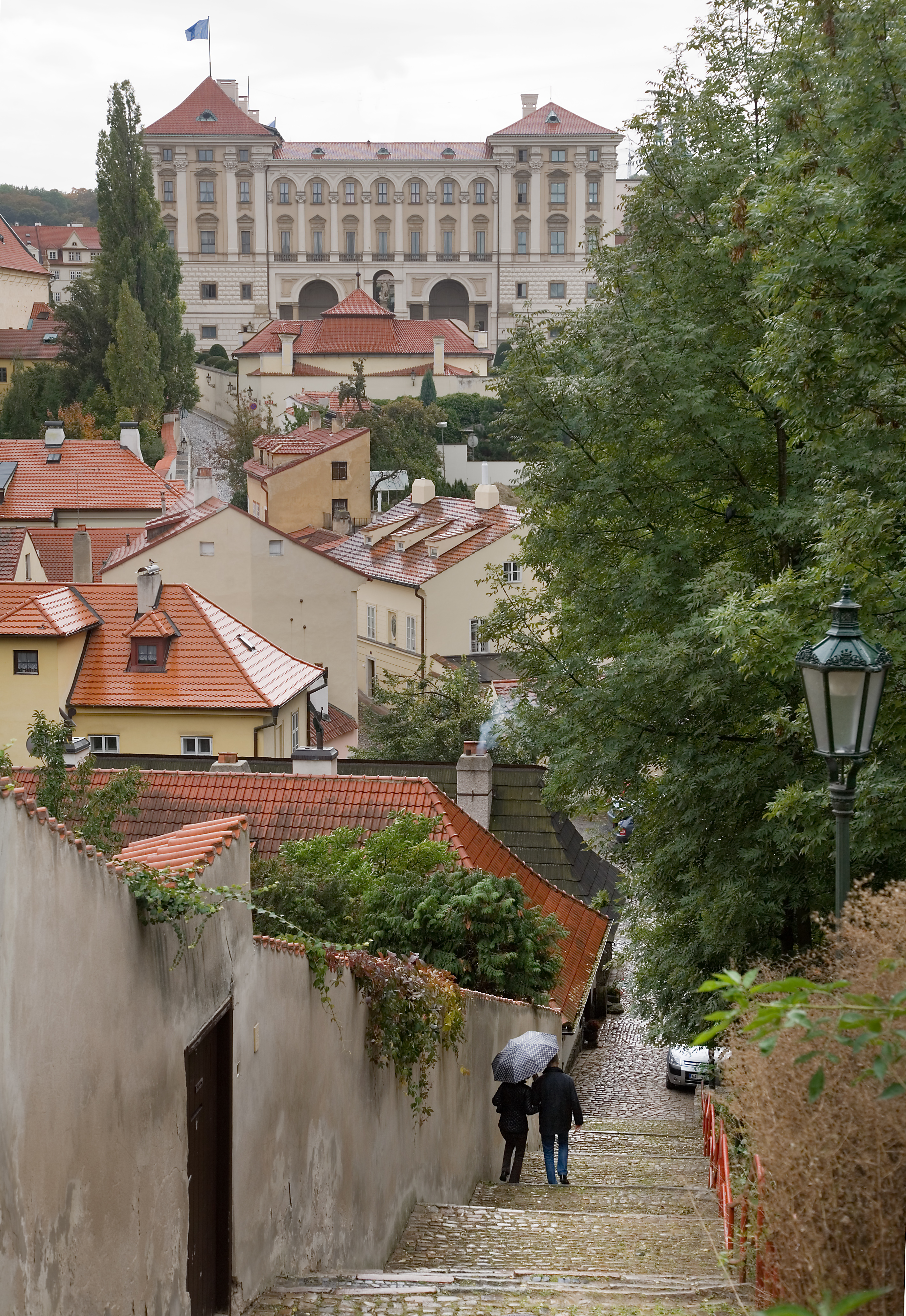 Rooftop view, in the hill, Prague, The Castle in the distance